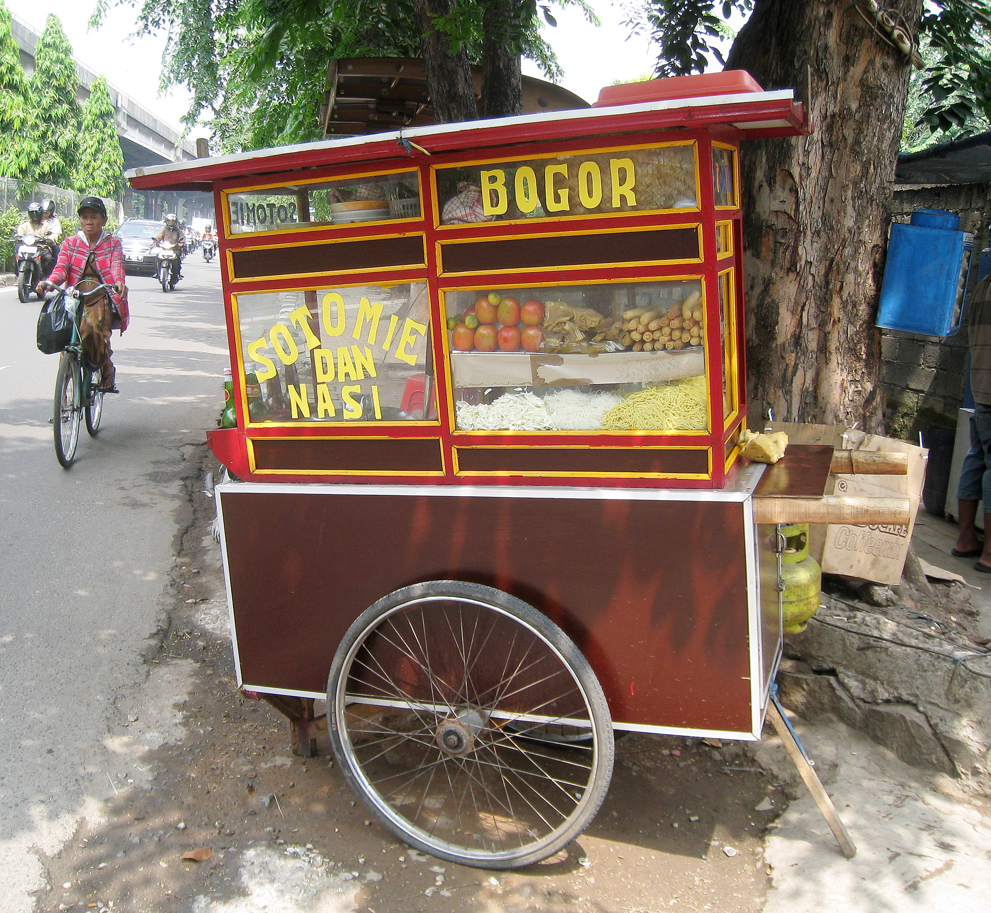 Travelling Soto Mie Bogor cart in Jakarta street, the ingredients displayed on window, such as noodle and rice vermicelli, cabbage, tomato, cow's leg (cartilage) and tripes, and risoles spring rolls.